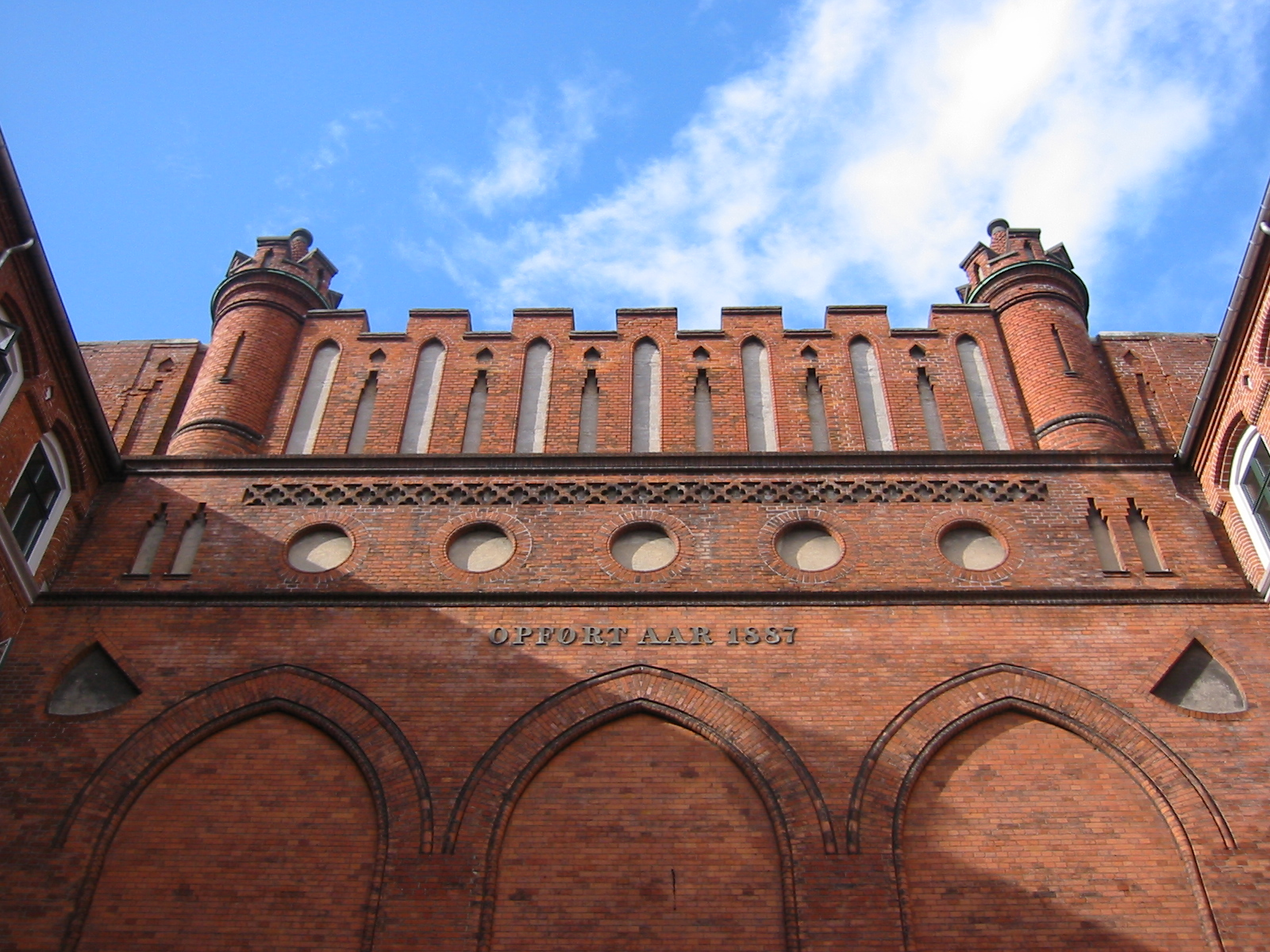 The upper part of Skydebanemure, a wall constructed in 1887 to protect Istedgade from stray bullets from a shooting range in Copenhagen, Denmark. The former shooting range is now a small community park known as Skydebanehaven.